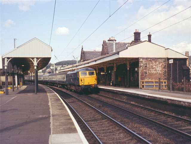 Penrith railway station Original description: Penrith Railway Station, August 1974 Nearly new electric loco 87030 (Built in 1974) passes through on an express to Euston